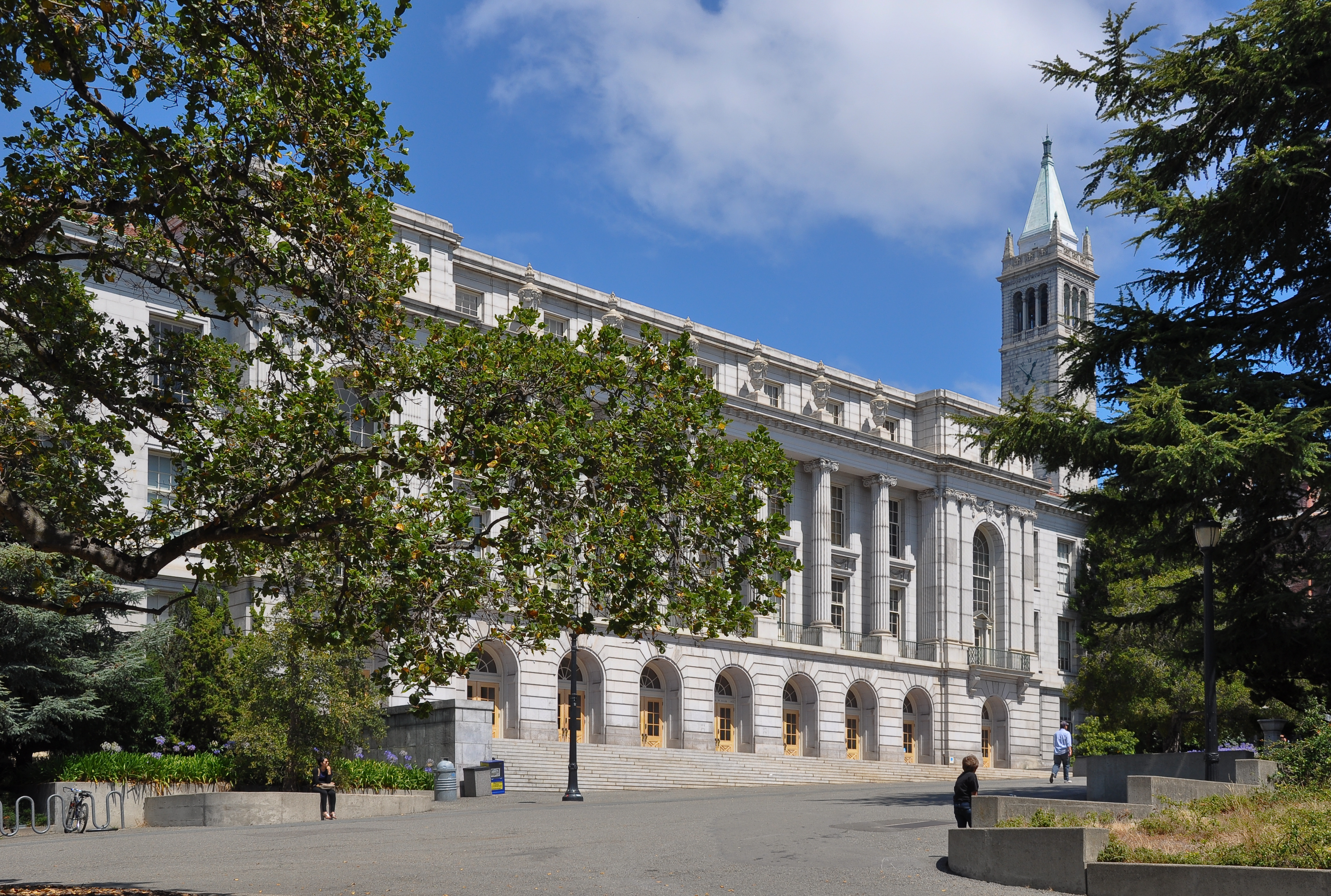 Wheeler Hall, part of University of California, Berkeley, USA.